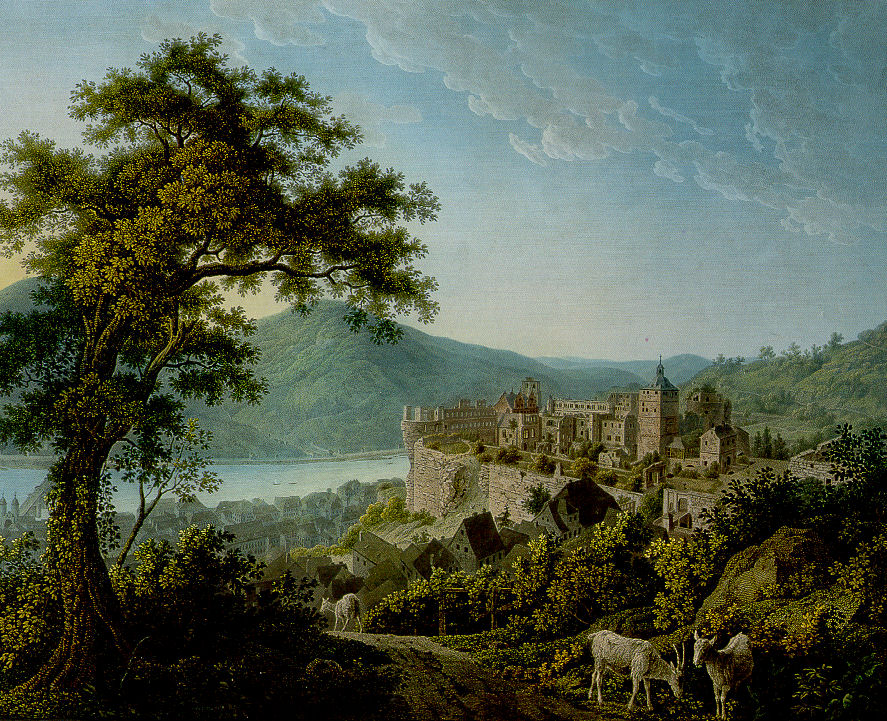 historic views of Heidelberg, Germany